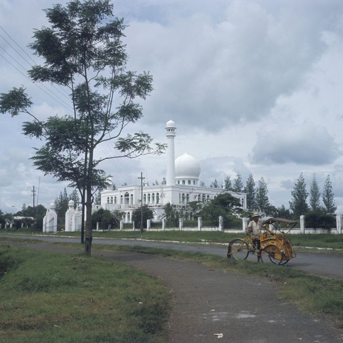 The Al-Azhar mosque at Kebajoran Baru